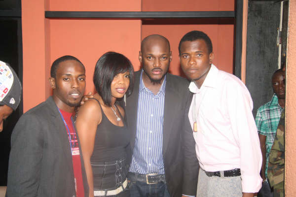 Guinness World Record for "Longest Dance Party" Kaffy and Multiple Award Winning Singer 2baba with the Executive Producer of My Funky Birthday TV Nig and PadMan Initiative Crooner at a reunion to work with this superstar on a Charity Project.